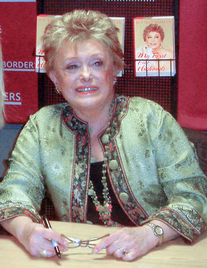 Rue McClanahan at a book signing for her book My First Five Husbands.